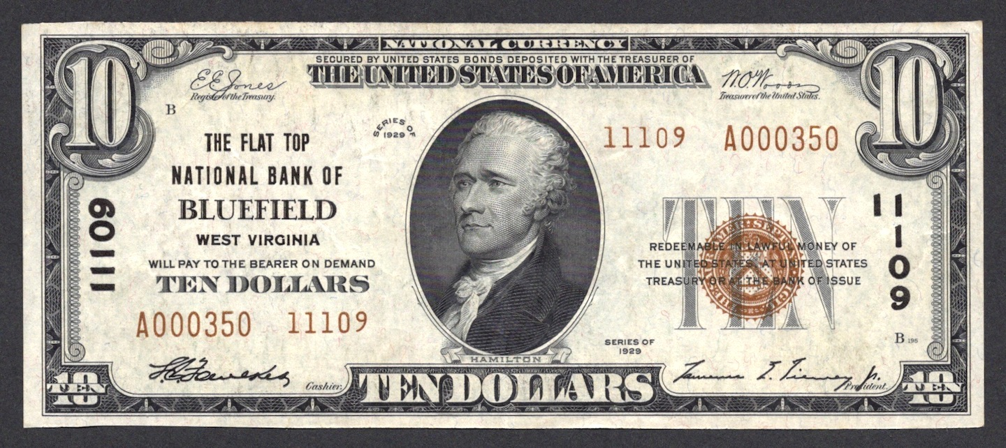 Small-size (series 1929) $10 United States National Bank Note issued by the Flat Top National Bank of Bluefield, West Virginia, charter number 11109. This particular note is of the "Type 2" design, in which the charter number is indicated in four places on the face of the note.